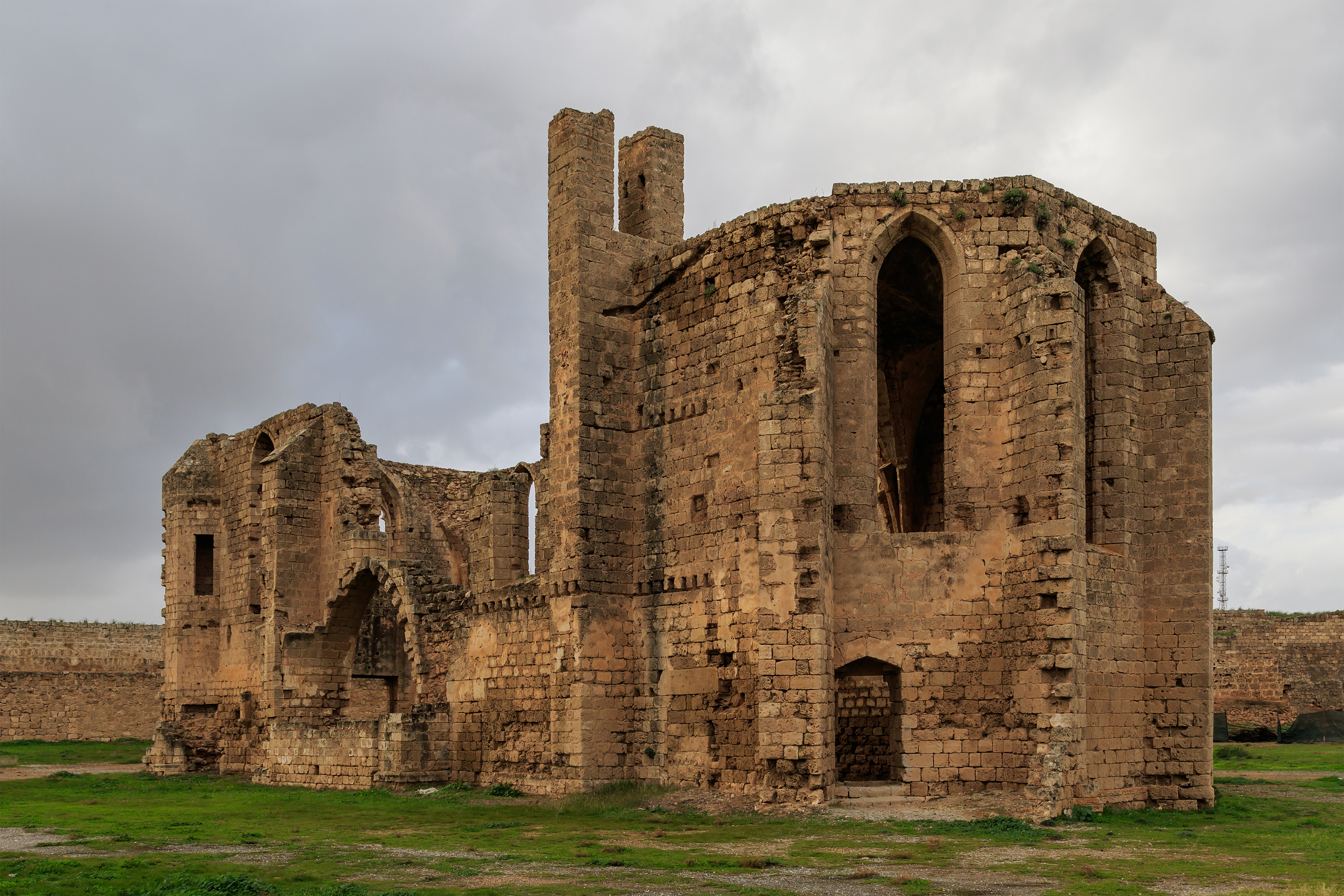 Ruin of Carmelite Church in Famagusta, Cyprus